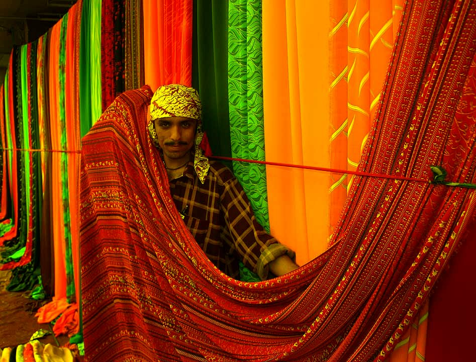 Sunday textile market on the sidewalks of Karachi, Pakistan.